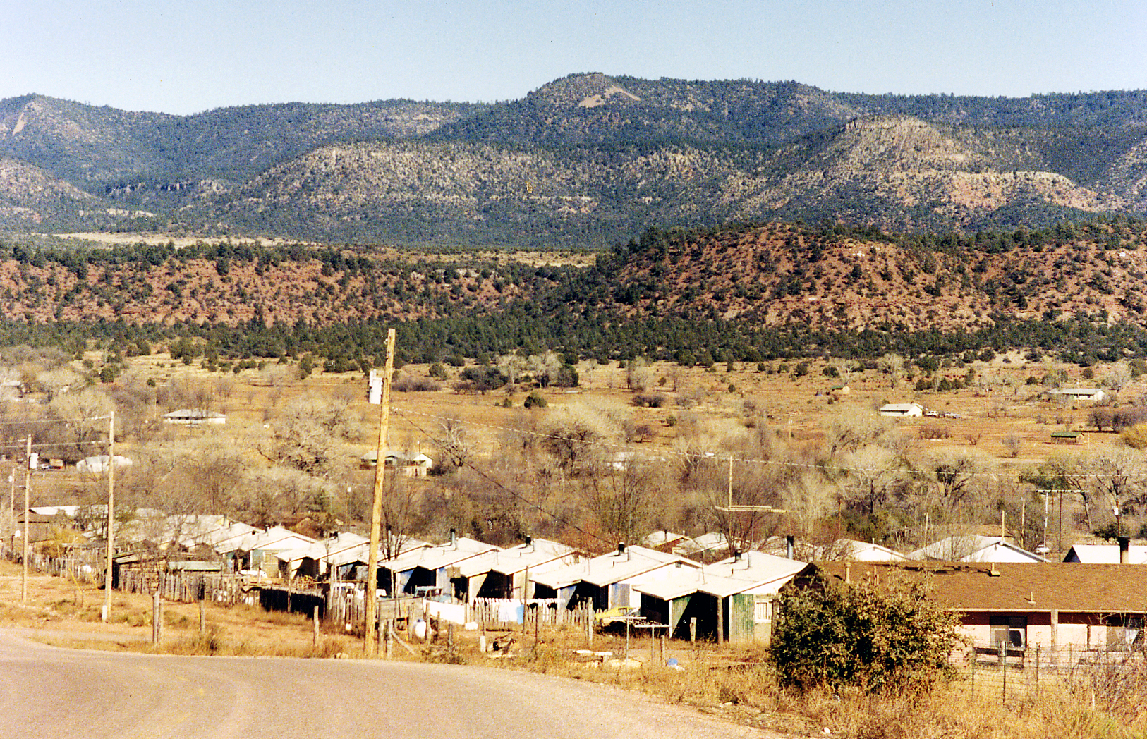 Cibuque, Fort Apache reservation settlement, ArizonaCibuque, Fort Apache reservation settlement, Arizona